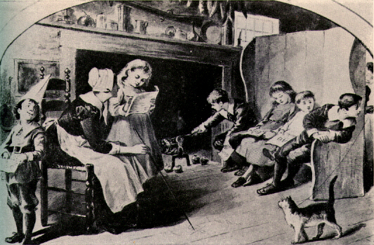 A New England Dame school in old colonial times, 1713. Engraving. (Bettman Archive)